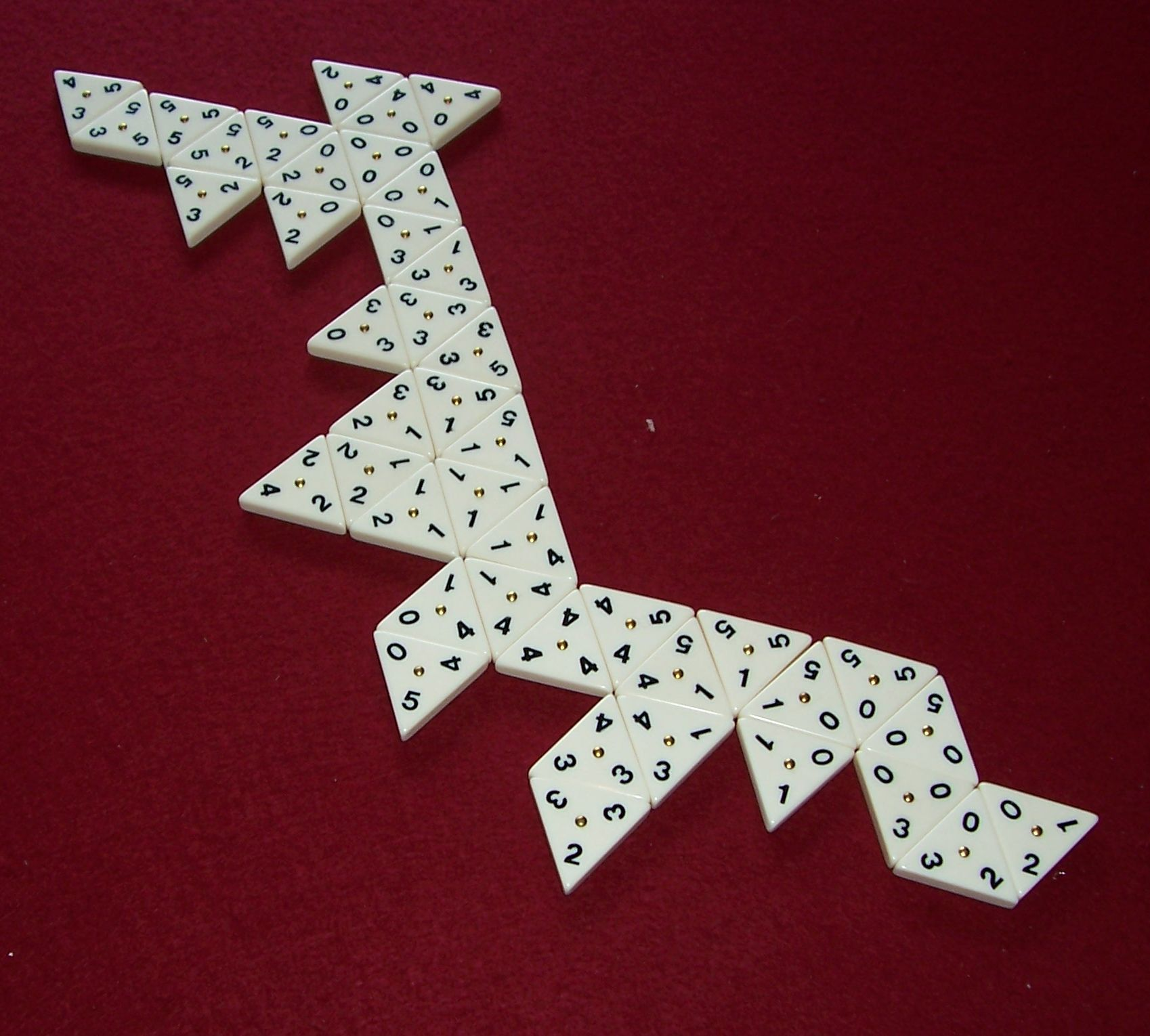 A typical Triominoes game